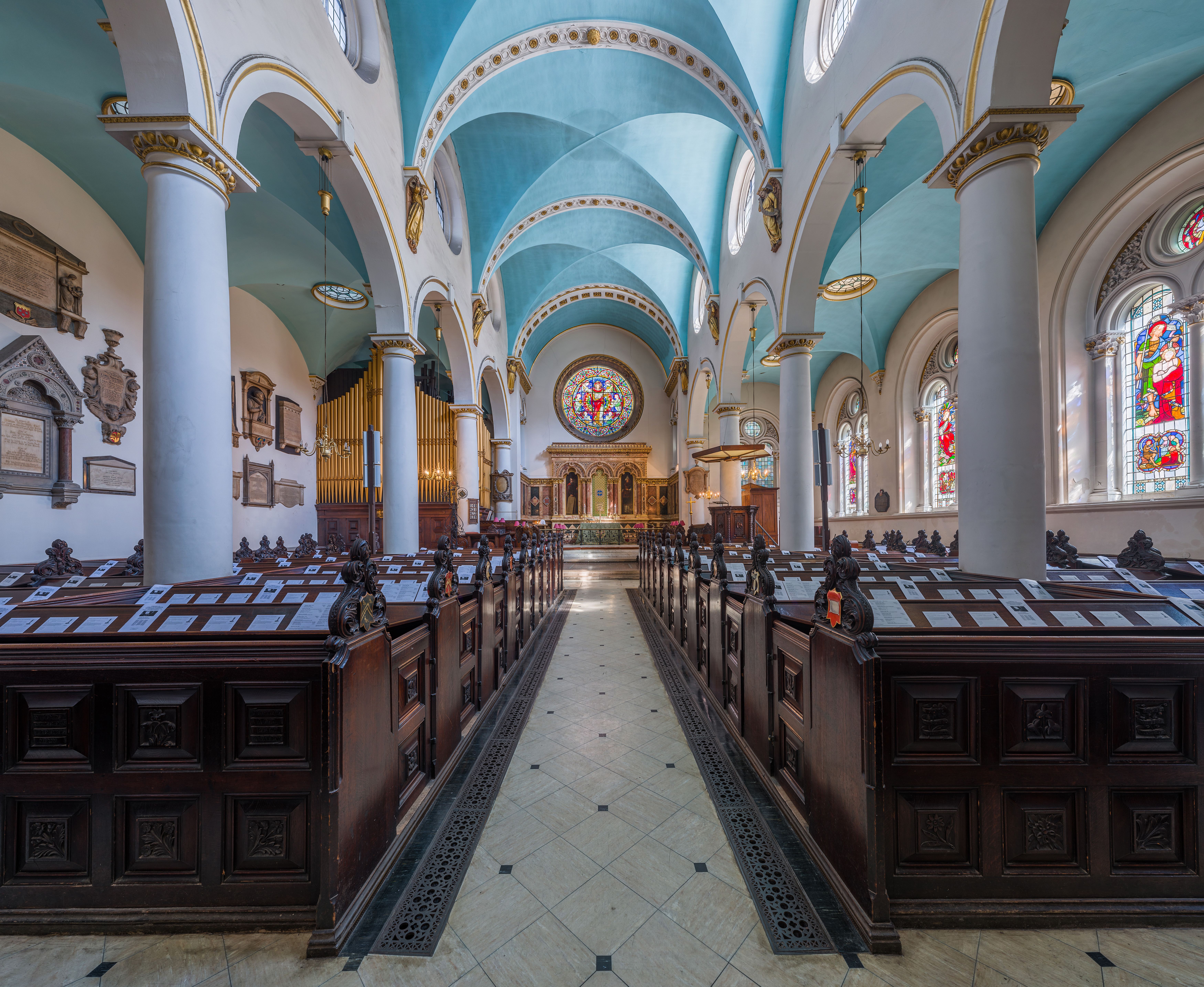 The interior of St Michael, Cornhill in London, England.